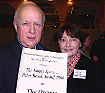 Sam Walters and Auriol Smith, co-directors of the Orange Tree Theatre in Richmond, were presented with the Peter Brook Empty Space Award 2006 at the Theatre Museum in London